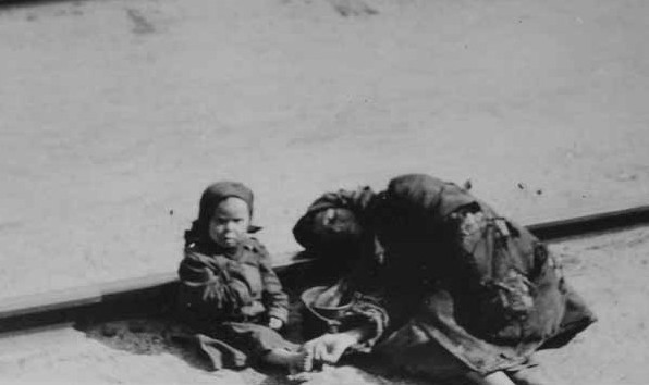 Girl near the mother, died from hunger.